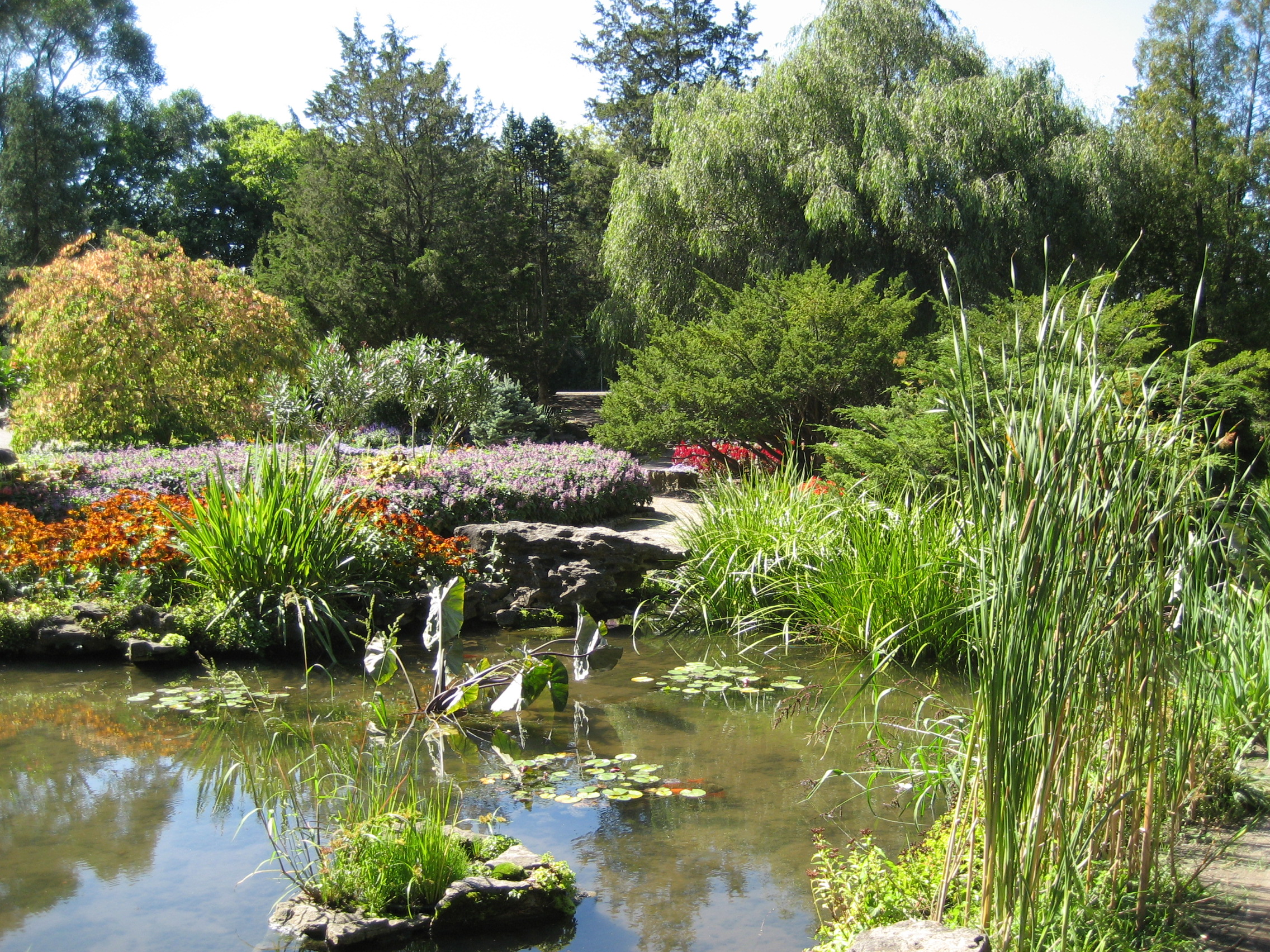 Royal Botanical Gardens, Rock Gardens, Ontario, Canada.